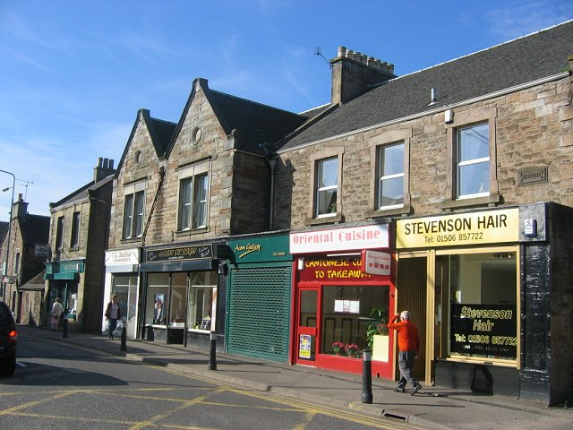 Greendykes Road leading north off Main Street, Broxburn, West Lothian, Scotland